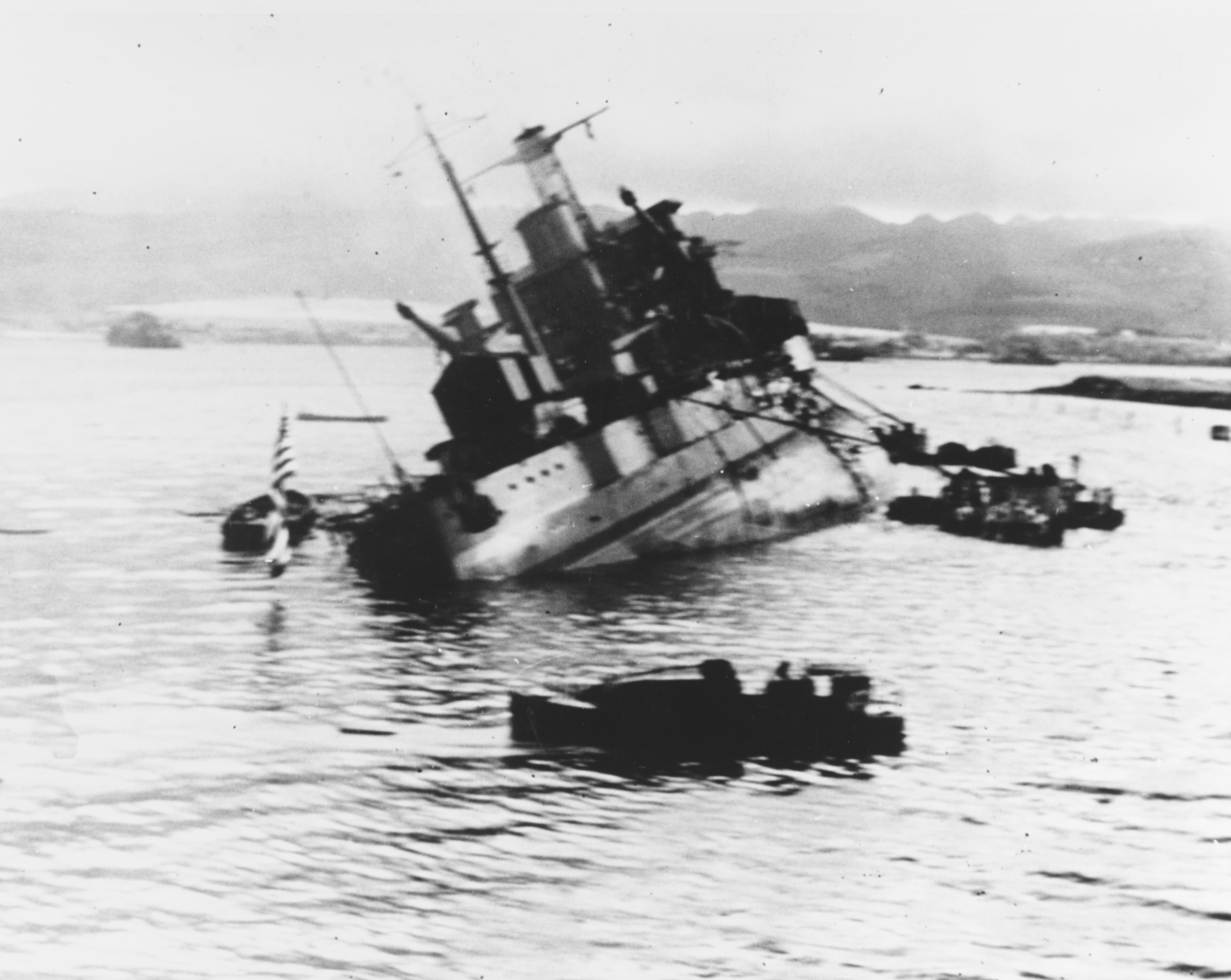 The U.S. Navy target ship USS Utah (AG-16, ex BB-31) capsizing off Ford Island, during the attack on Pearl Harbor, Hawaii (USA), 7 December 1941, after being torpedoed by Japanese aircraft. Photographed from USS Tangier (AV-8), which was moored astern of Utah. Note colours half-raised over fantail, boats nearby, and sheds covering Utah´s after guns.